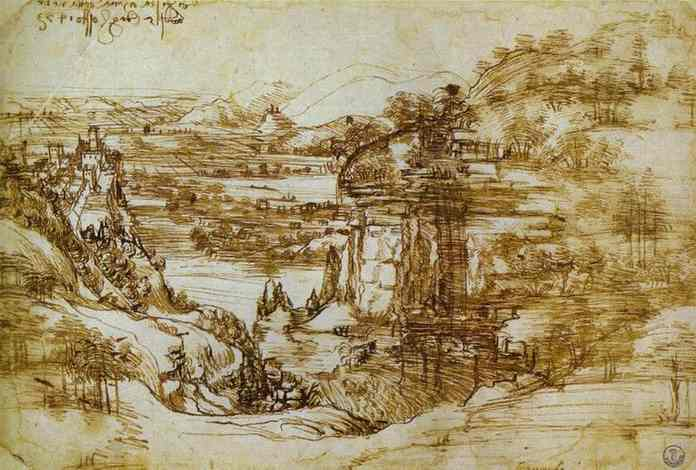 Picture of landscape